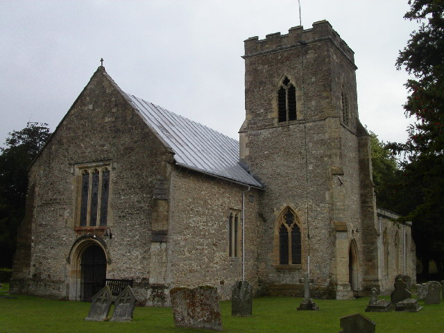 Church of England parish church of St Michael and All Angels, Steventon, Oxfordshire (formerly Berkshire): view from the southwest